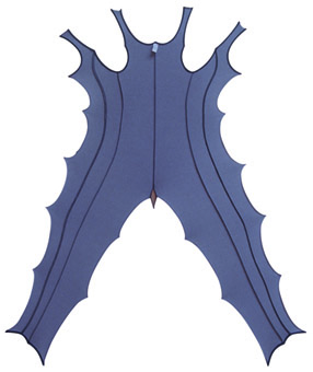 From the series "Body of Work" By Maria Ezcurra